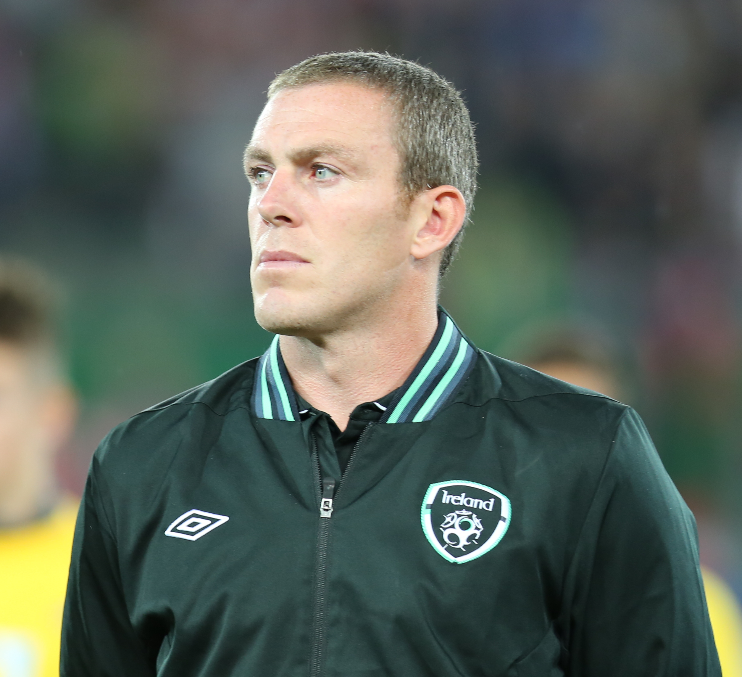 2014 FIFA World Cup qualification (UEFA), Group C: Republic of Ireland national football team at 10. September 2013 before the match against the Austria national football team (0:1) in the Ernst-Happel-Stadion in Vienna. Here: Richard Dunne, irish defender The making of this work was supported by Wikimedia Austria. For other files made with the support of Wikimedia Austria, please see the category Supported by Wikimedia Österreich.